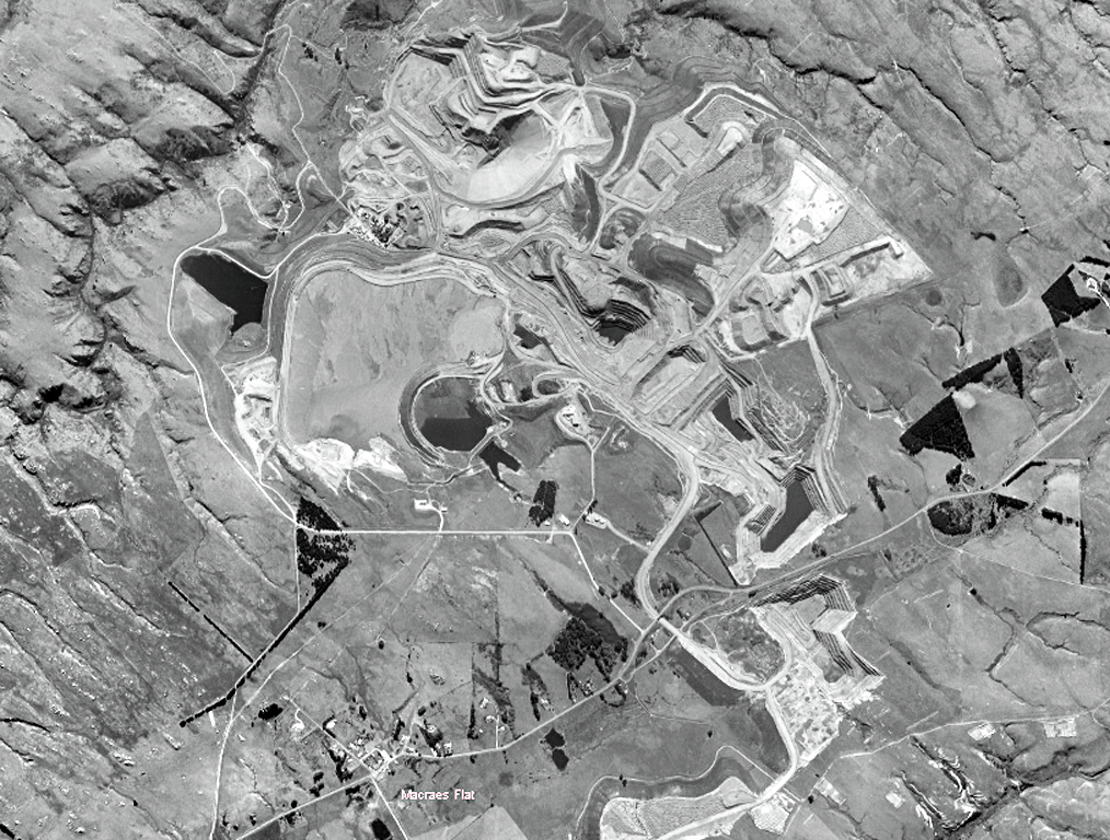 Macraes Gold Mine, Otago, New Zealand. (Dec. 2008)